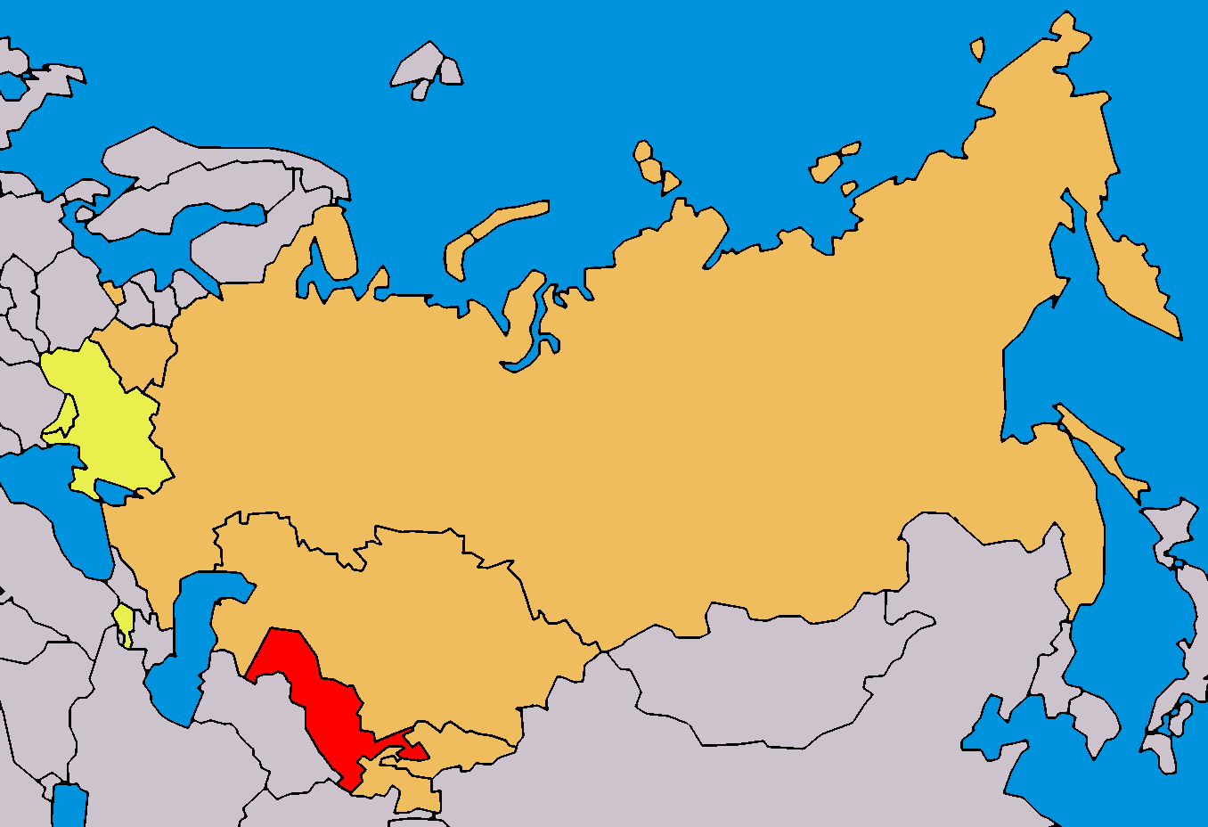 Map of Eurasian Economic Community: Member states Former member Observer status